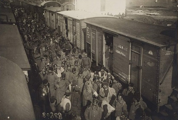 Bulgarian mobilization during World War One. Reservists boarding a train at the Sofia train station.